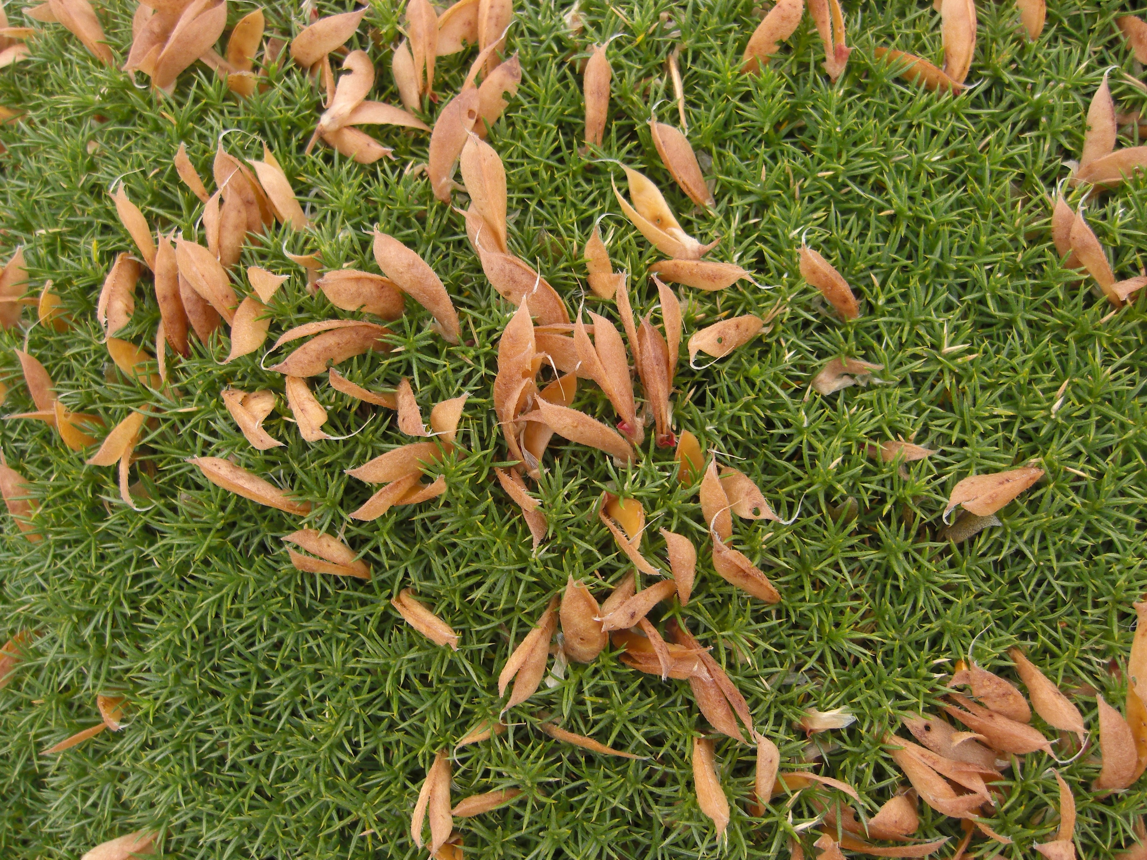 Anarthrophyllum desideratum (DC.) Benth. Also called Fire Tongue. This is a large spiny cushion shrub found alongside the much more common Mulinum spinosum in xerophytic communities on the eastern slopes of southern Patagonia. In general, while being of similar size, it is finer and more silvery than the coarse, yellowish Mulinum spinosum. It also has a much more restricted range.